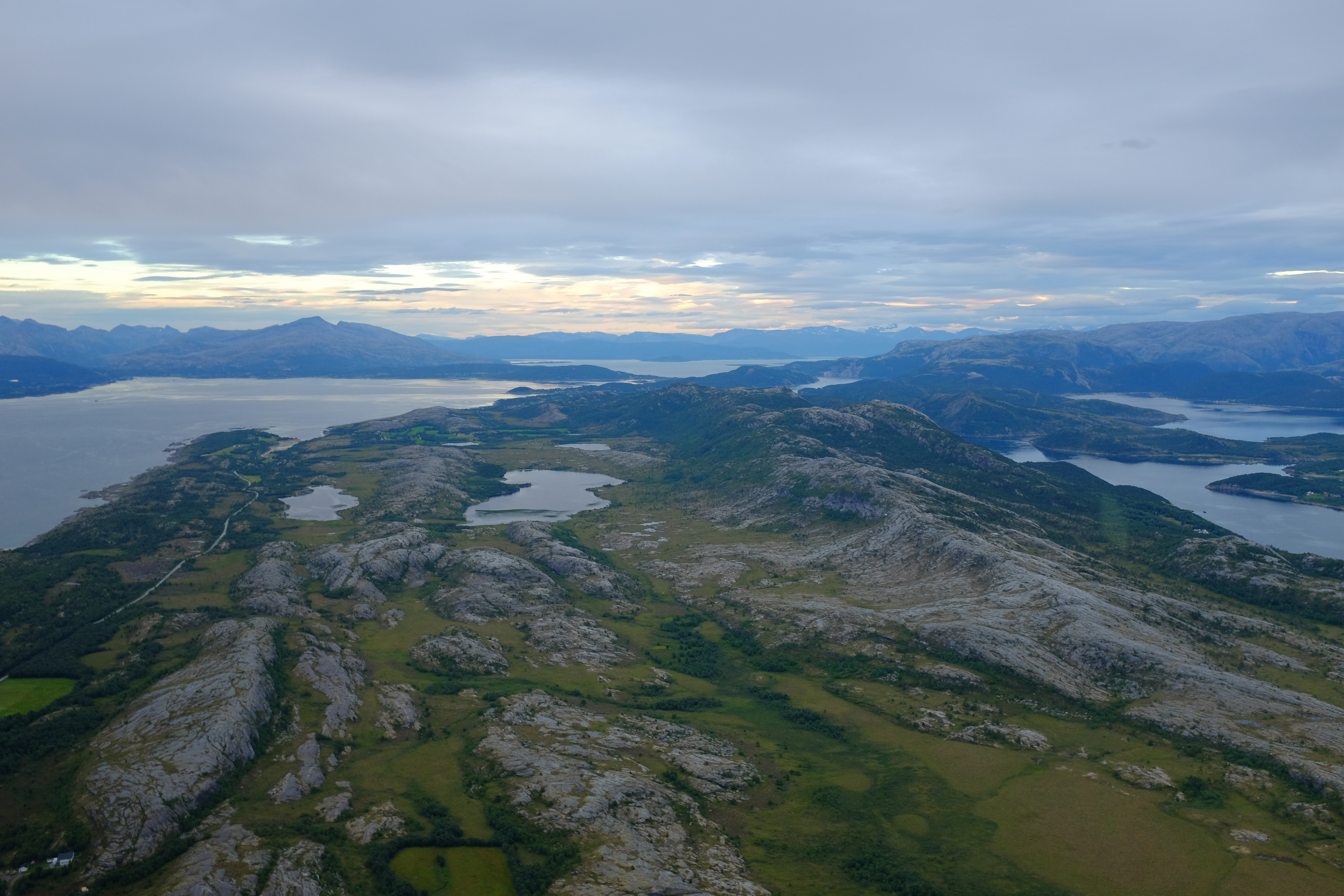 Straumøya just south of Bodø municipality in Nordland. Straumøya nature reserve located between Seivåg and Seine on Straumøya in. The area is protected to preserve an important wetland with large regional conservation value, particularly because of the area's ornithological, bog botanical and limnological importance, and its features as drawing and nesting area for birds.